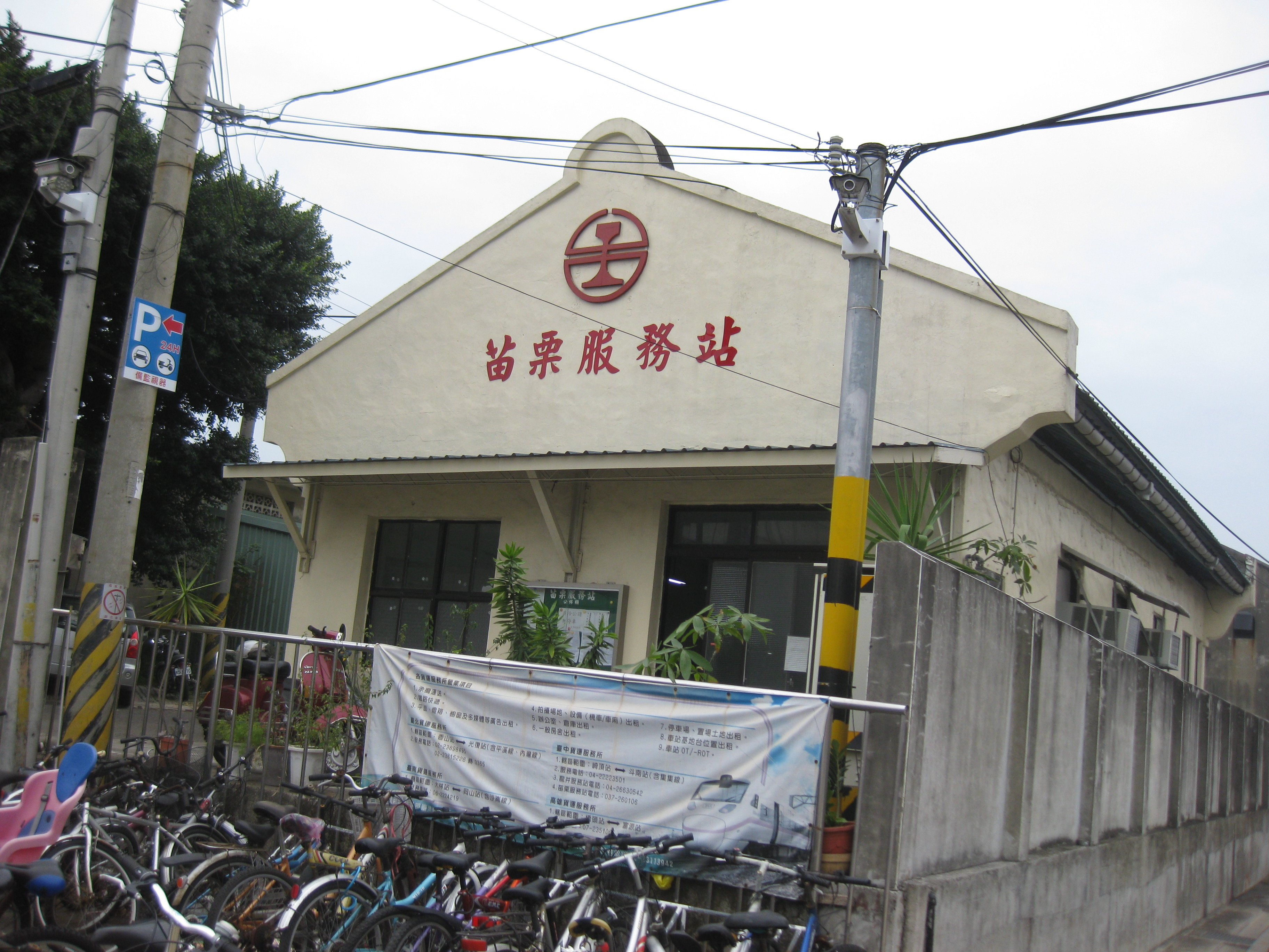 Miaoli Service Station, Taichung Freight Service Office, Department of Freight Service, Taiwan Railways Administration.